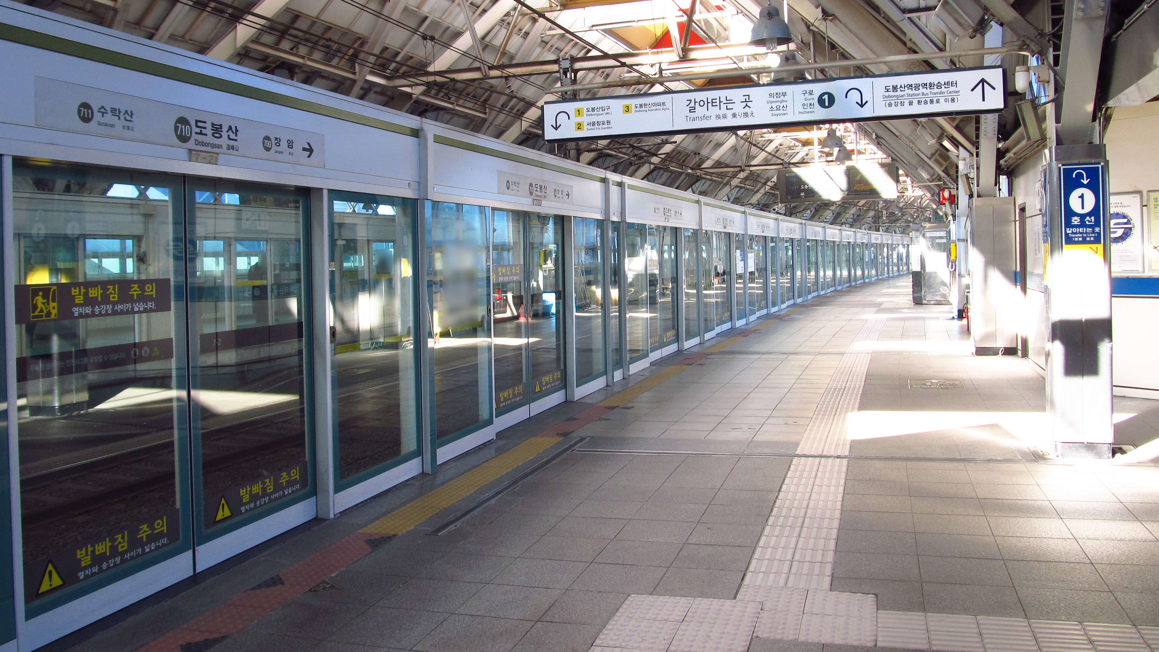 The platform at Dobongsan Station on Seoul Subway Line 7 in Dobong-gu, Seoul, Republic of Korea(South Korea)